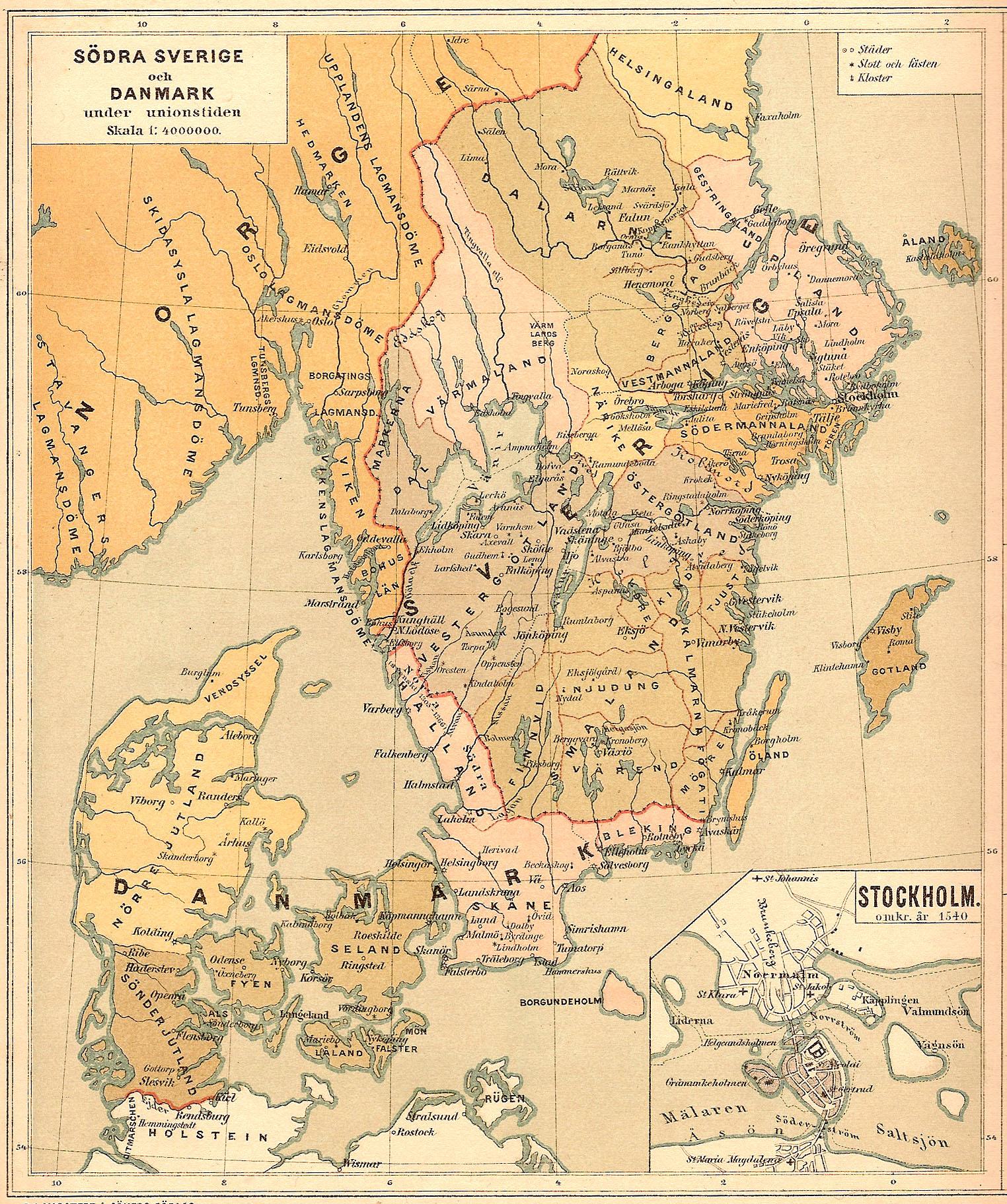 Historic map (swedish) of southern Sweden and Denmark (with Stockholm) from the time of the scandinavian union